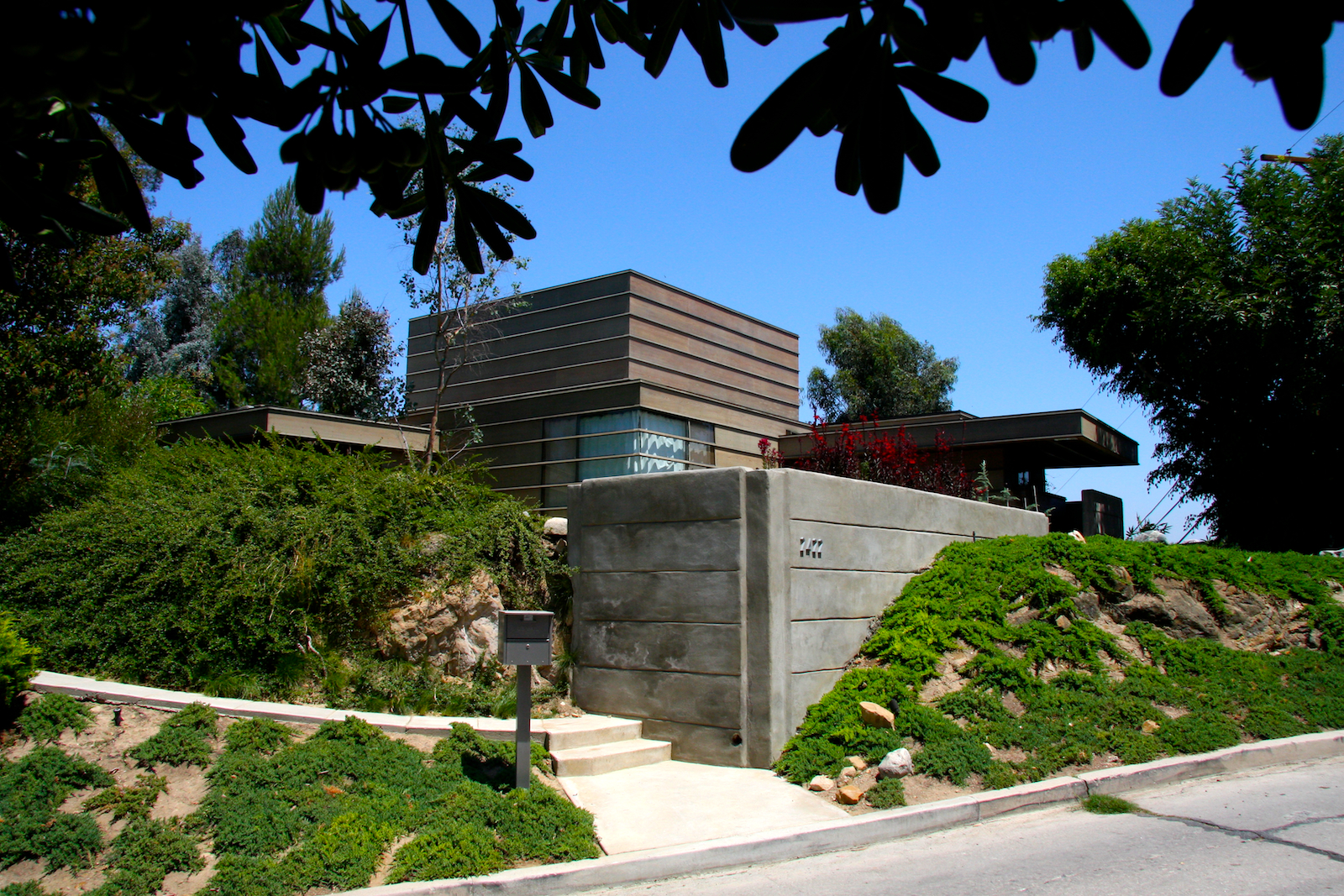 How House (Rudolph Schindler), Silver Lake, Los Angeles (1925)